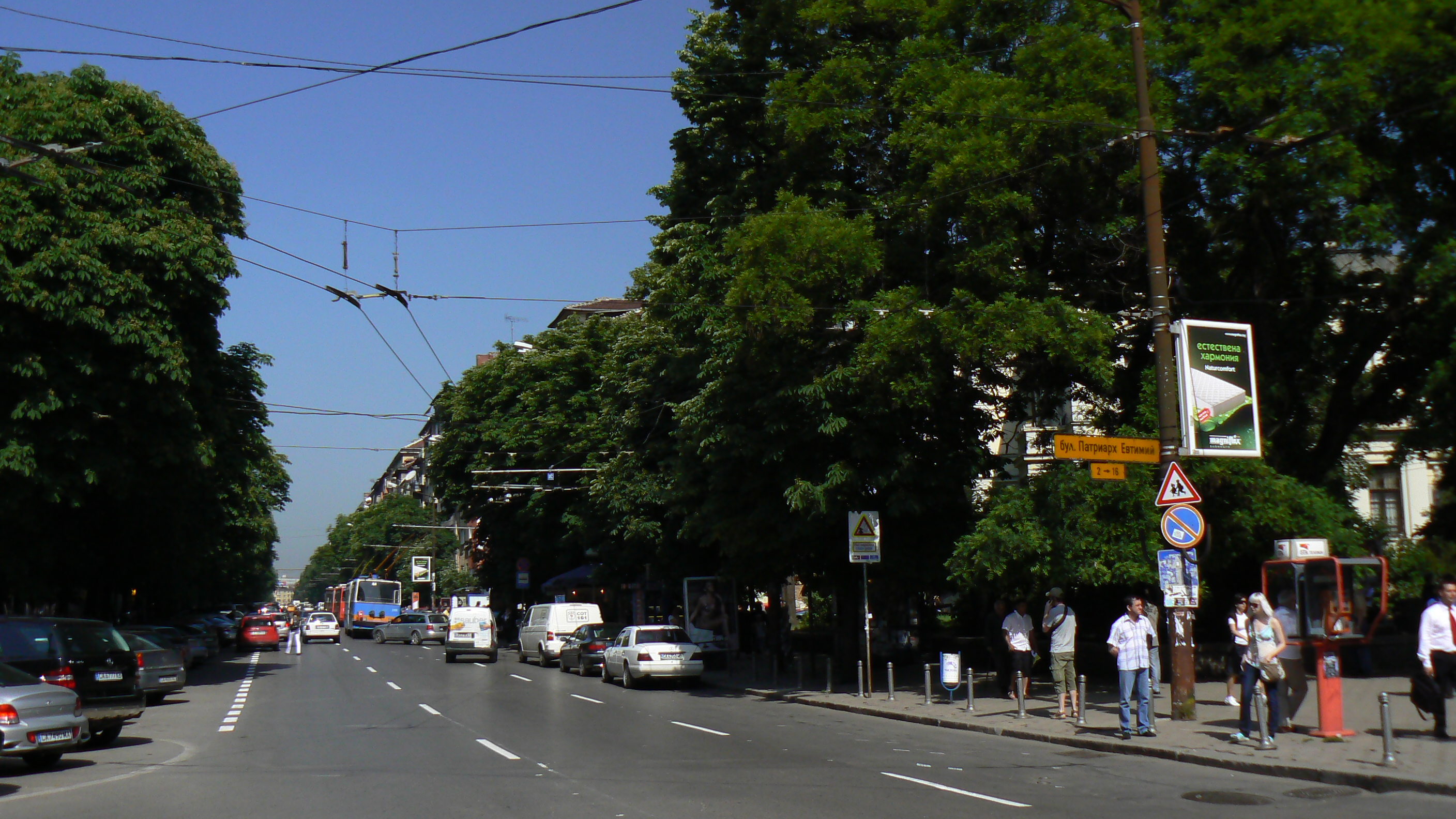 "Patriarch Evtimii" Blvd. Sofia, Bulgaria